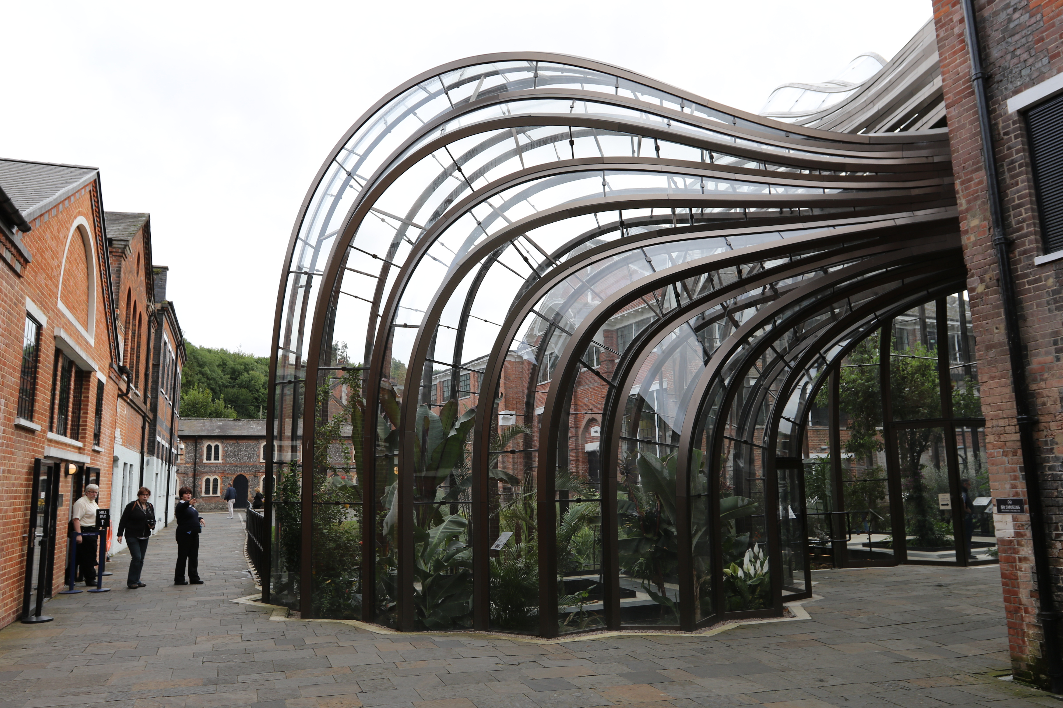 A modern extension to Laverstoke Mill